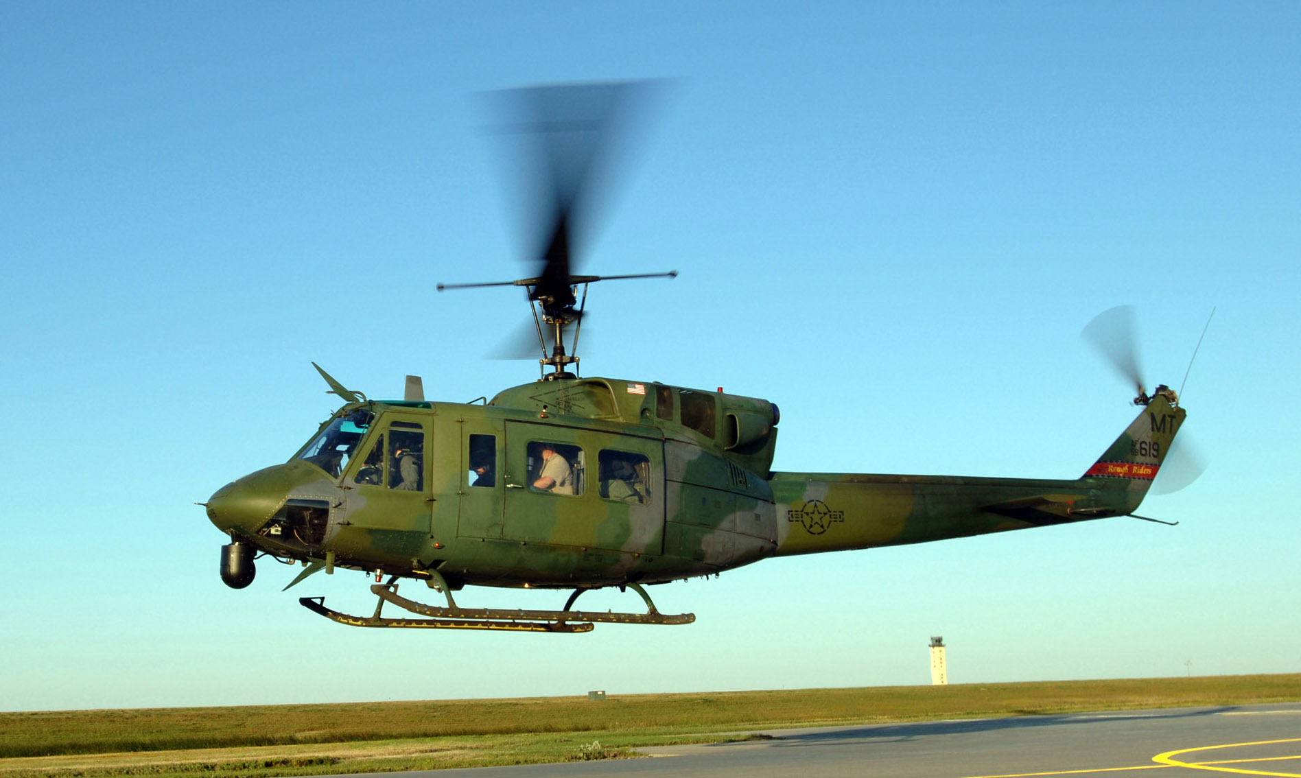 MINOT AIR FORCE BASE, N.D. -- A UH-1N Huey helicopter takes off here Sept. 2 for Columbus Air Force Base, Miss., to assist in the Hurricane Katrina disaster relief efforts. Thirteen people and a helicopter from the 54th Helicopter Flight here are deploying to aid the recovery. (U.S. Air Force photo by Staff Sgt. Joe Laws)